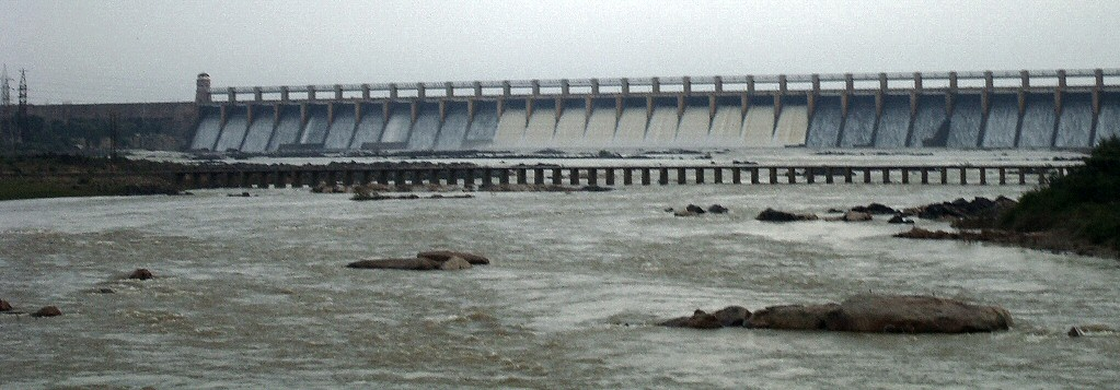 Cropped version of File:TungabhadraRiver Dam.jpg